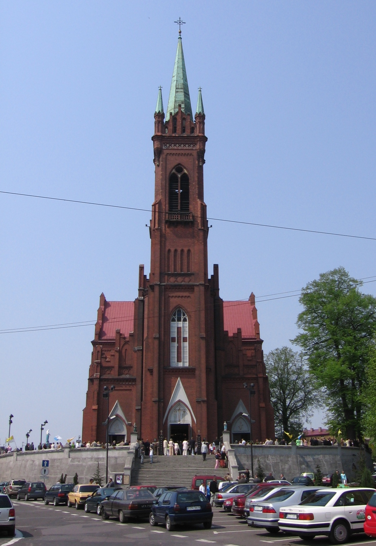 Zgierz - neo-gothic church of St. Catherine